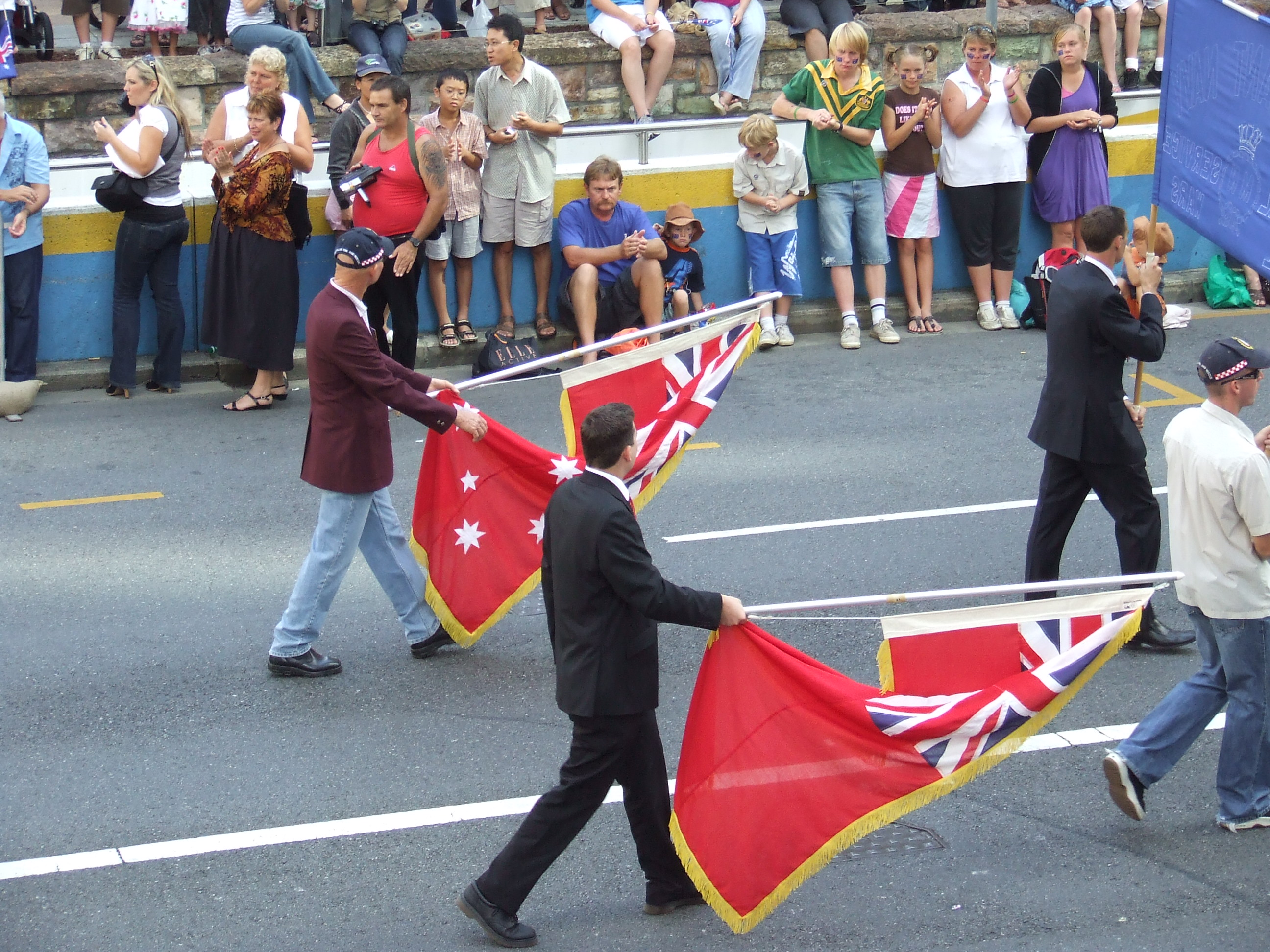 Author: Source: [1] Contents 1 Conditions of use: 2 Summary 3 Licensing 4 Original upload log Conditions of use: "You are free to use this photo for any reasons, including commercial reasons, but you MUST credit with a link if you use it on the Internet, or by printing the URL next to or on the photo if used away from the Internet." Summary The British and Australian Red Ensigns on parade during the 2007 Anzac Day celebrations in Brisbane.